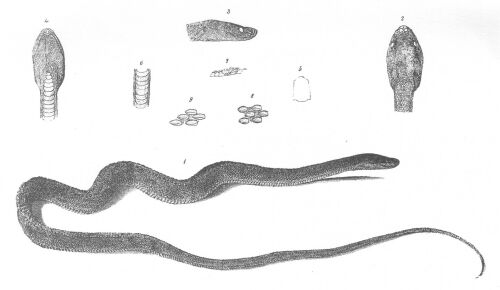 This is an image entitled "Gonionotus plumbeus" from Volume 1 of John Lort Stokes' 1846 book Discoveries in Australia. The animal depicted is Xenodermus javanicus.